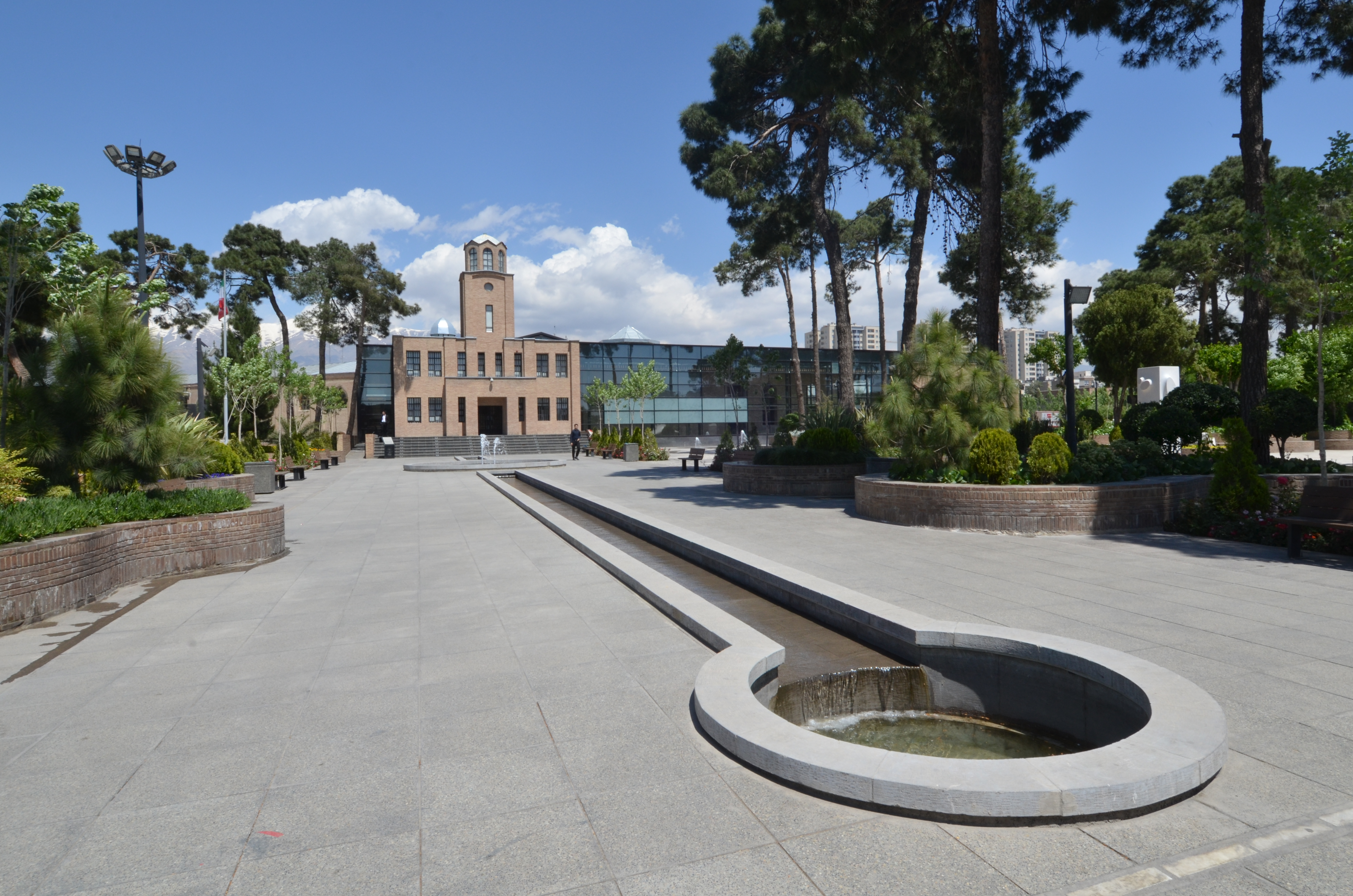 Museum of the Qasr Prison